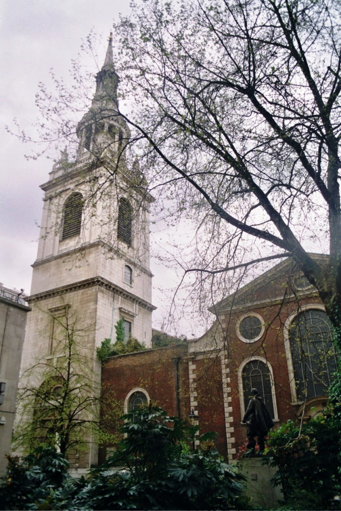 Church of St Mary Le Bow